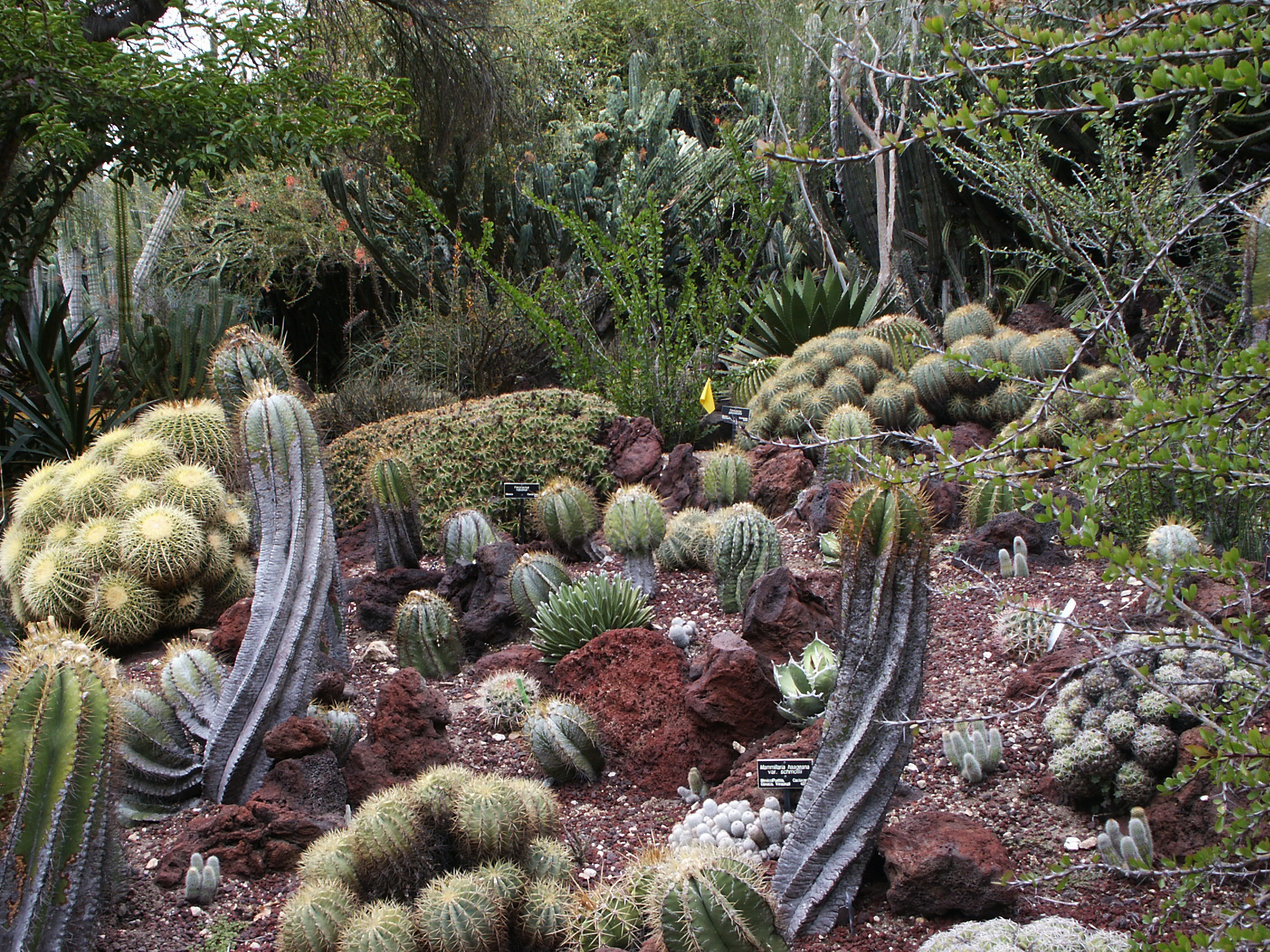 Huntington Library Desert Garden May 2009